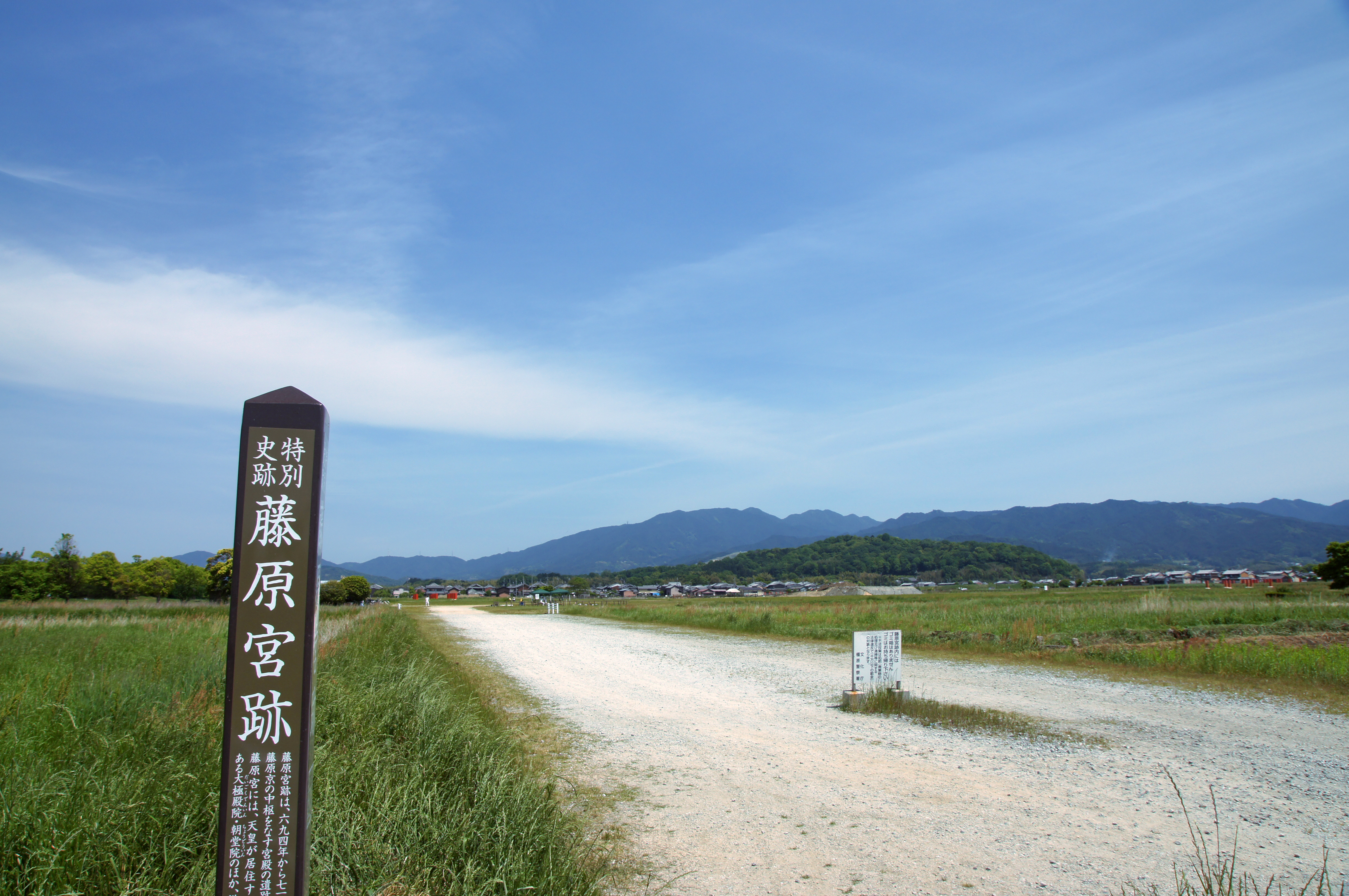 Fujiwara-kyō ruins in Kashihara, Nara prefecture, Japan